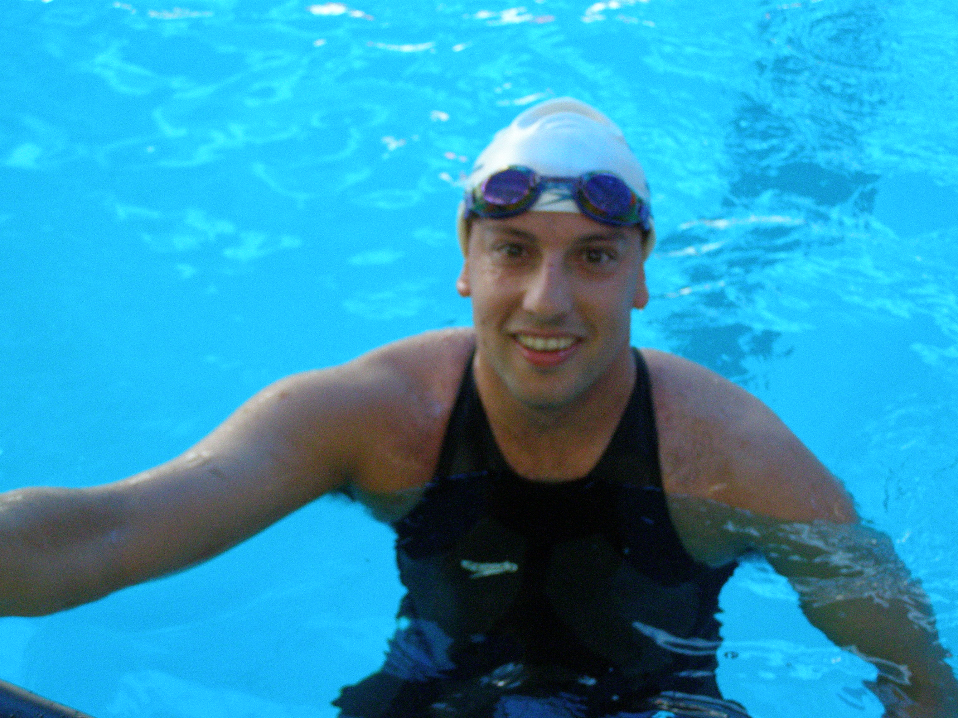 Miki Halika at the Maccabiah games 2009